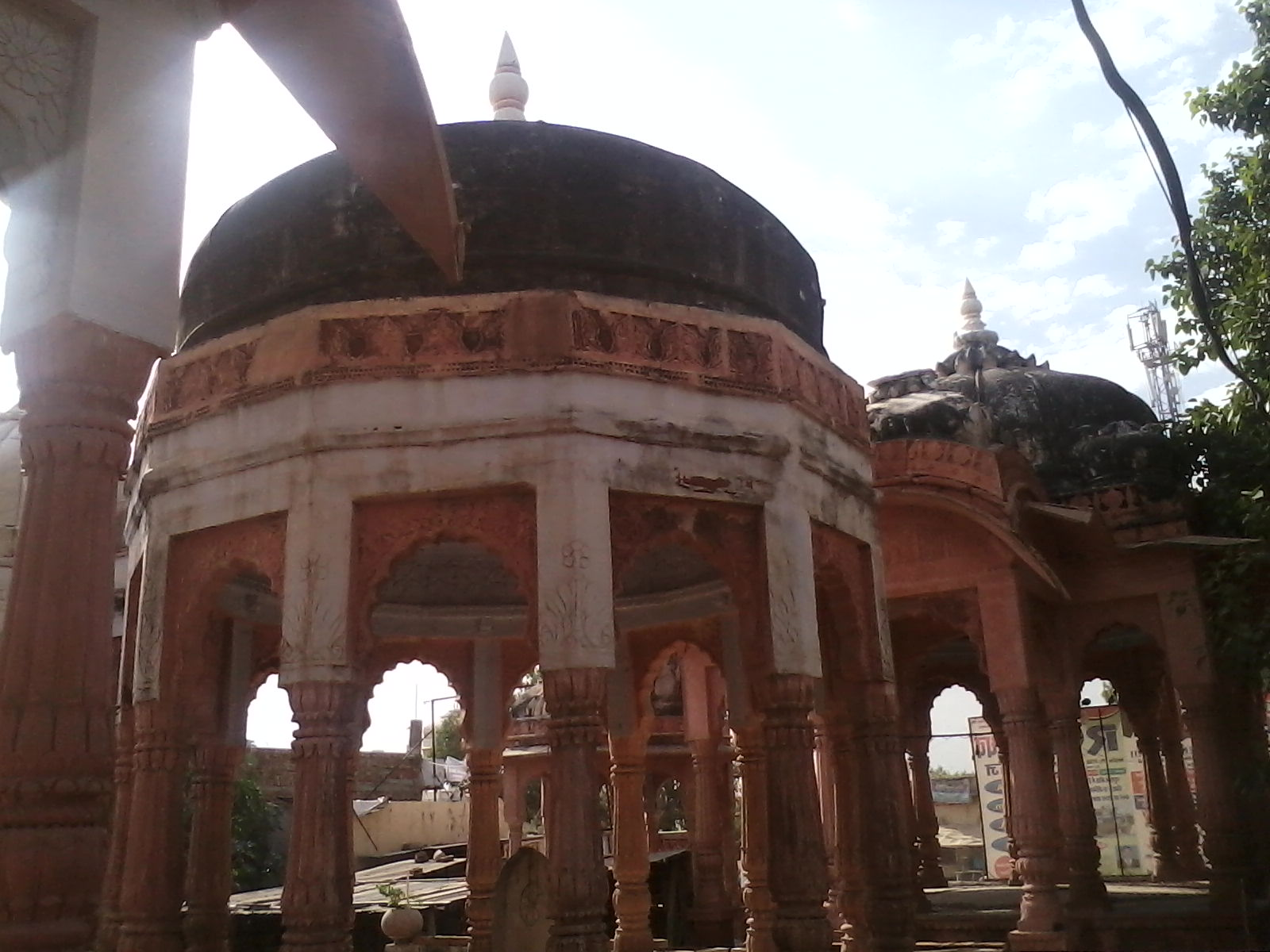 Amarkor memorial